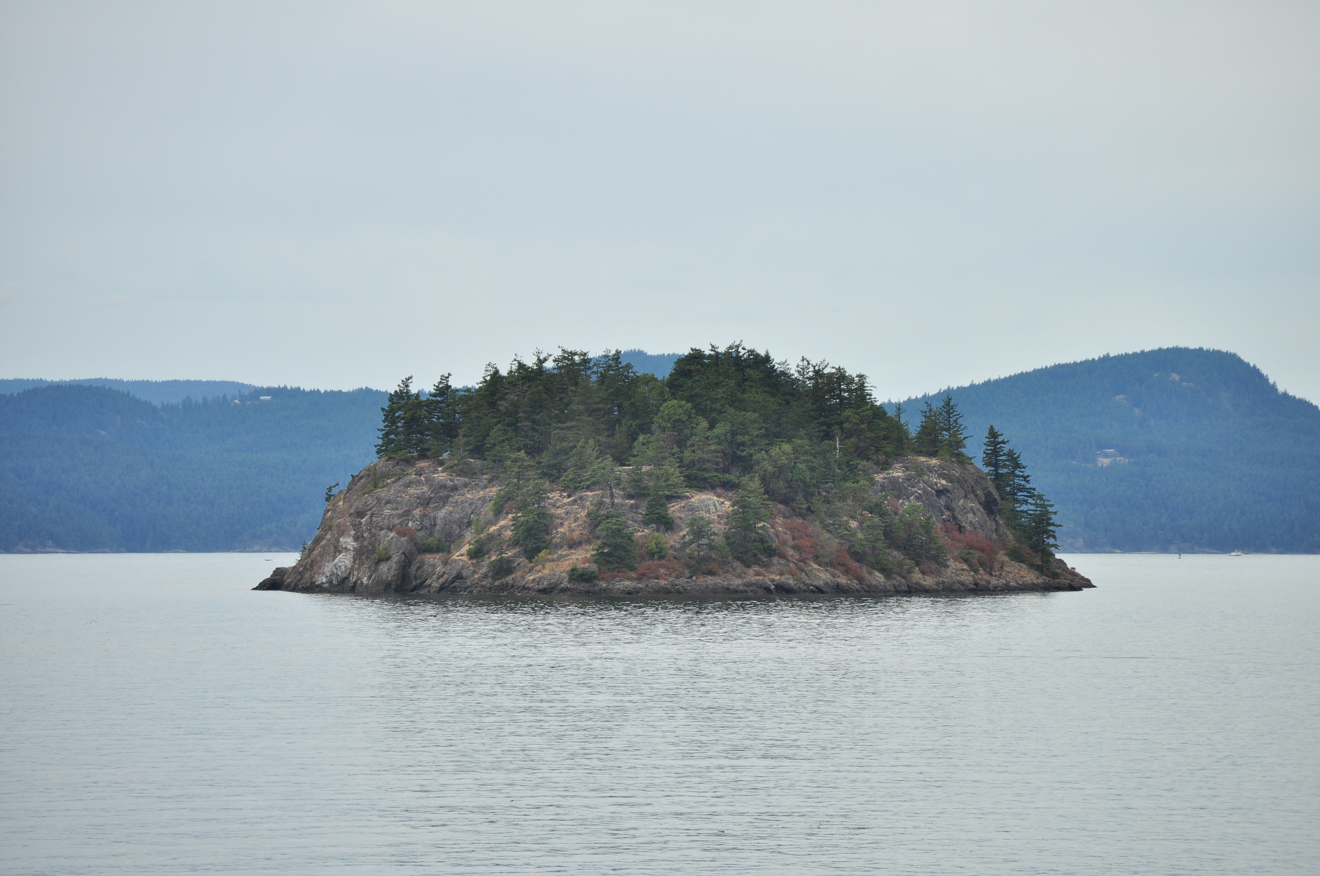 Willow Island, one of the San Juan Islands in Washington State, U.S.